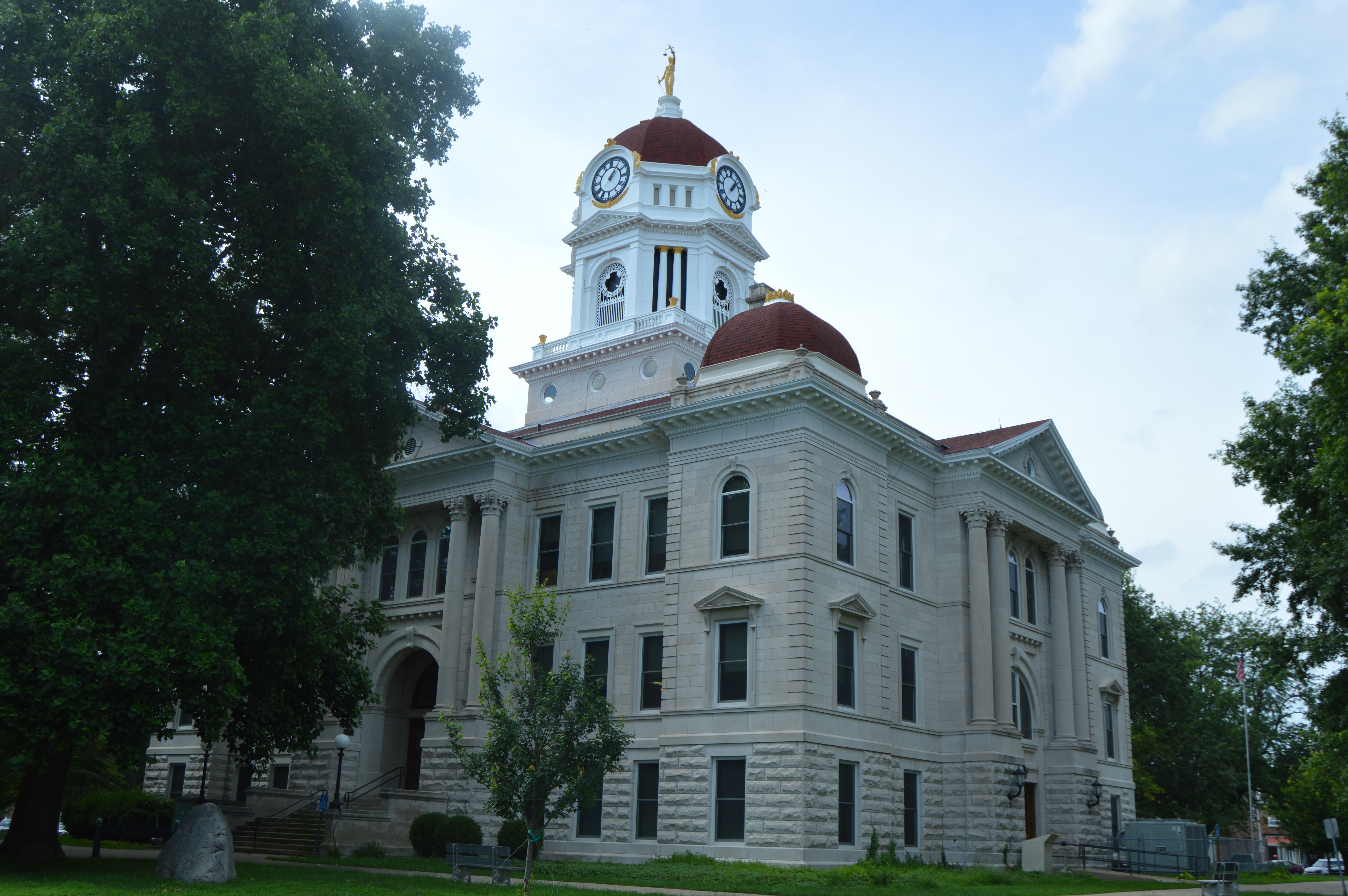 Southern and eastern sides of the Hancock County Courthouse, located on Courthouse Square in central Carthage, Illinois, United States. Built in 1908, it is part of the Carthage Courthouse Square Historic District, a historic district that is listed on the National Register of Historic Places.